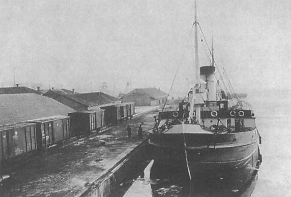 Icebreaker Gaidamak.